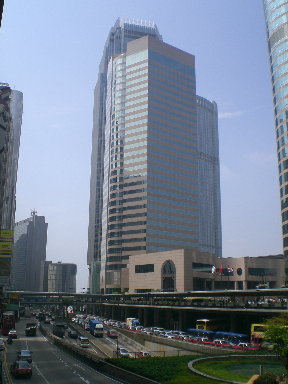 Author= User:Kwanyatsw 交易廣場是zh:香港的一組三幢的zh:辦公室大樓，位於zh:香港島zh:中環zh:康樂廣場8號。